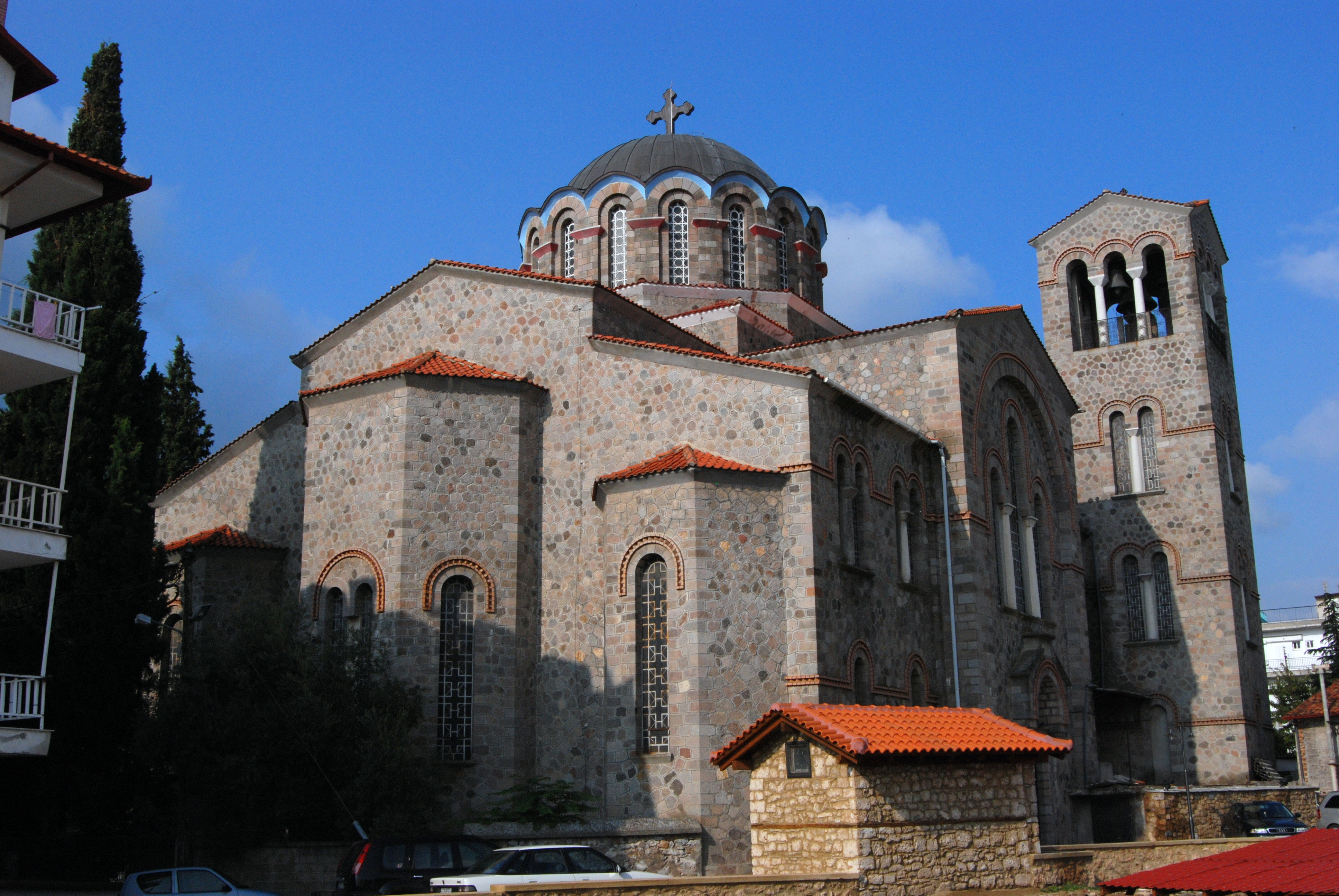 Voden Varosha